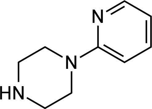 Pyridinylpiperazine-ifa